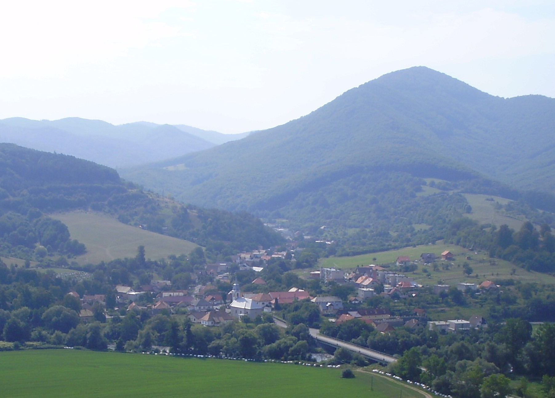 View of the village Rudno nad Hronom from north.